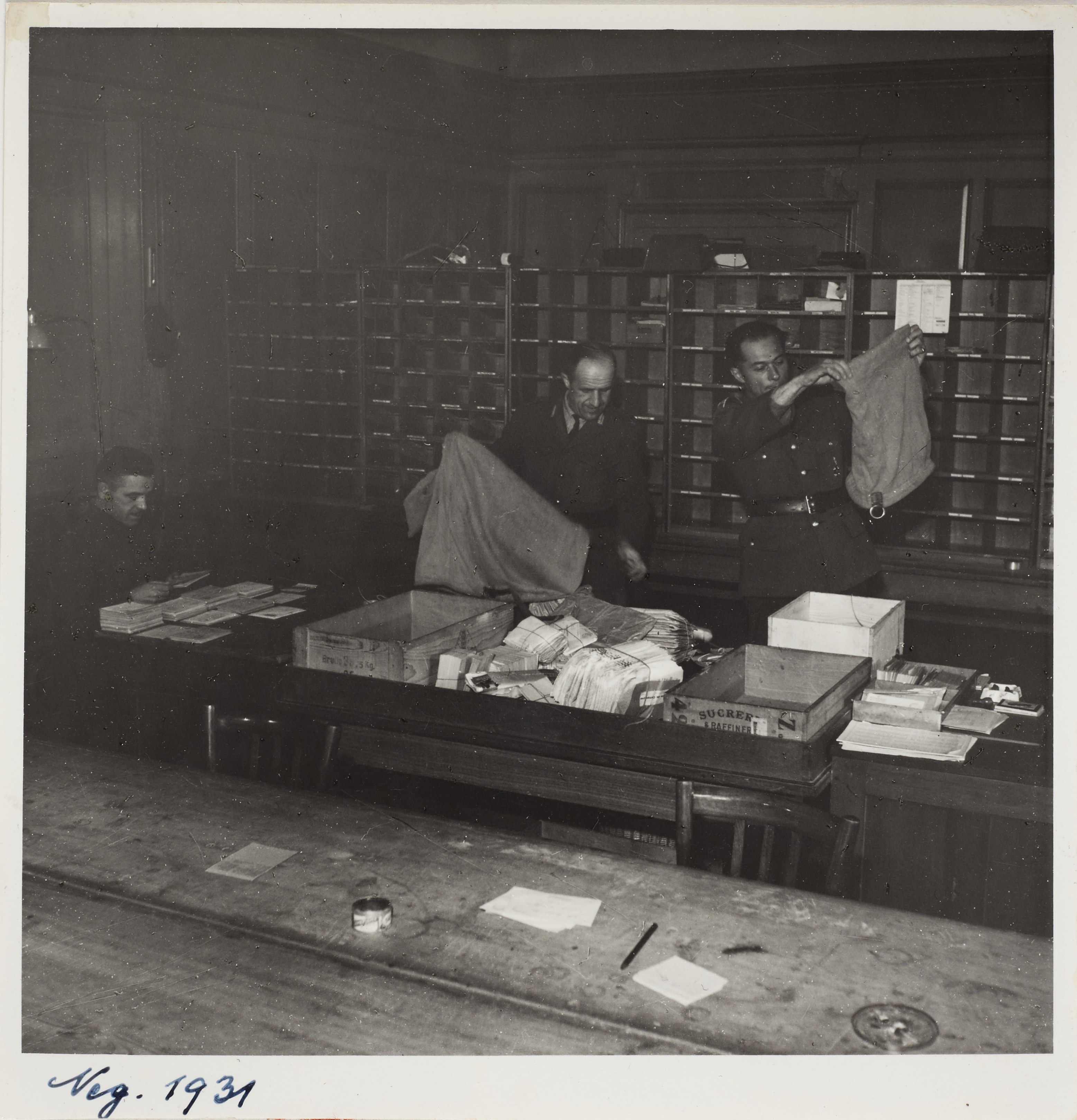 Interior view of post office, people emptying postbags and sorting the letters, in the background there are sorting racks for mail